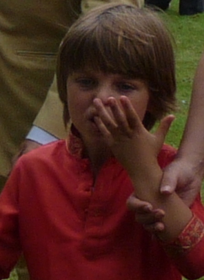 Model Elizabeth Hurley at the annual Ampney Crucis Village Fete 2008 with family.